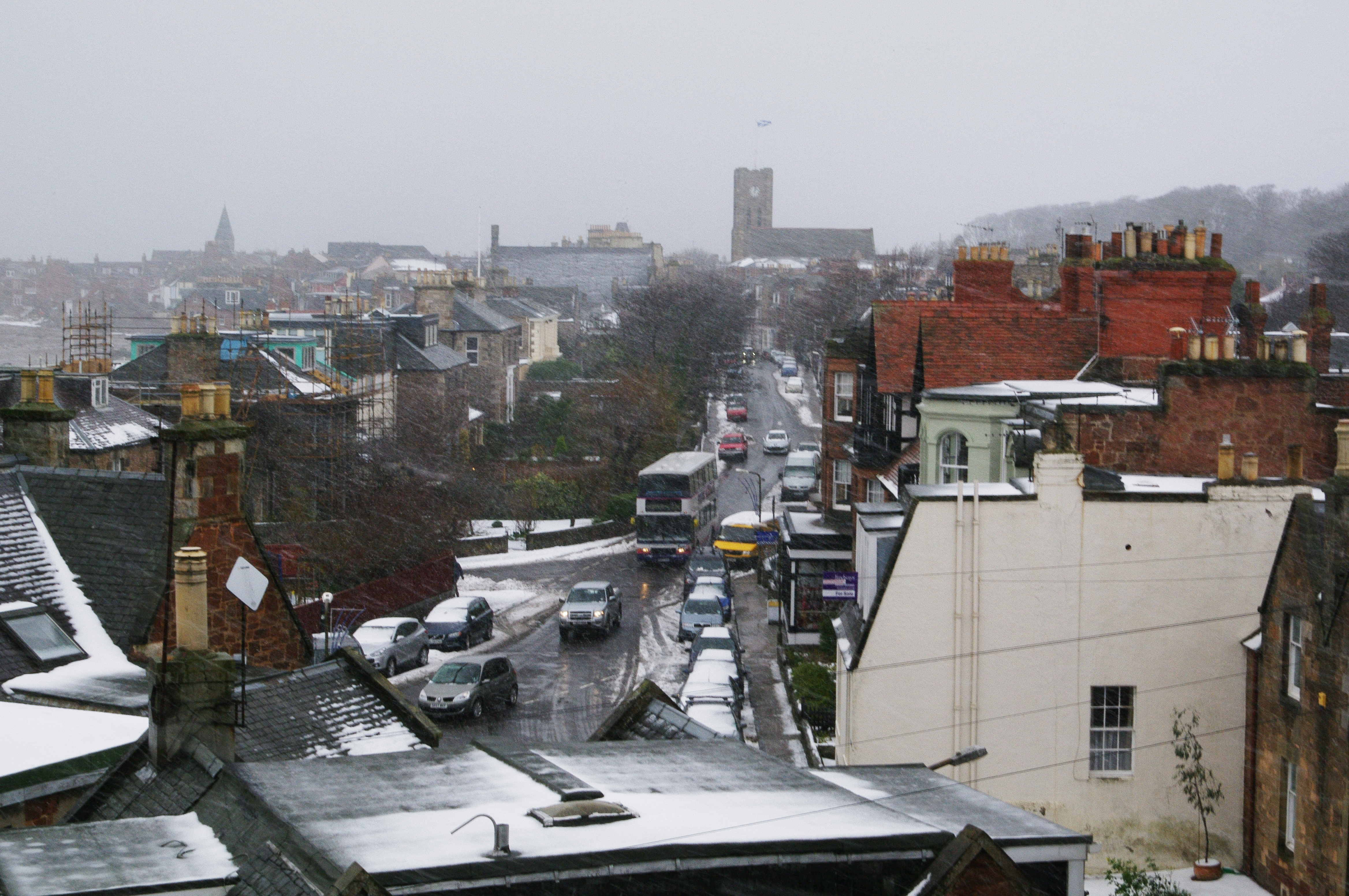 North Berwck town centre in winter.